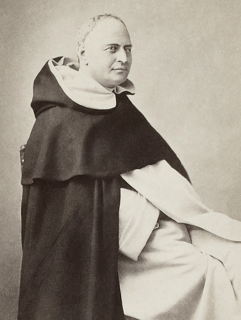 Lacordaire (1802-1861), french dominican, politic activist, journalist, writer and preacher.